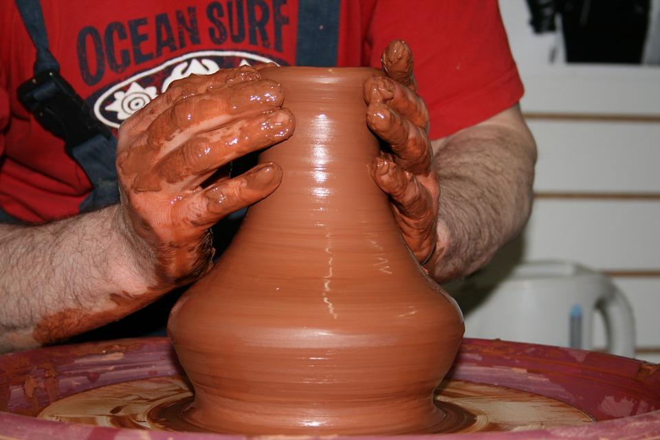 Clay, Potter, Master, Modeling